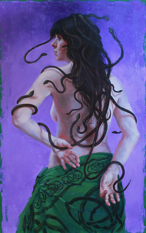 Oil painting of mythological character, Medusa, reimagined through a contemporary feminist lens, in response to the #metoo movement by artist, Judy Takács. She wears a hashtag stigmata.